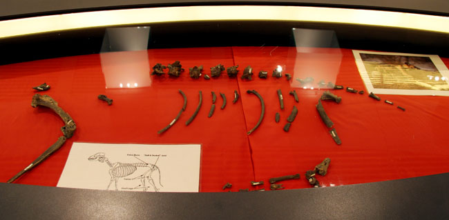 Lycaon sekowei. This is the almost complete postcranial skeleton of a wild dog which may represent the oldest evidence of wild dogs in South Africa. It is a large animal, approximately the size of a modern North American wolf. It shows interesting transitional features between regular canids (dogs) and the Cape Hunting Dog (Lycaon sp.) It has so far only been recovered from Gladysvale, one of the fossil sites in the Cradle of Humankind, and is estimated to be just less than 1-million years old.